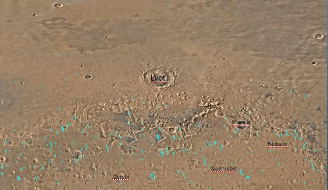 Ismenius Lacus Quantangle Map. The small, colored rectangles represent image footprints for the narrow angle camera on the Mars Global Surveyor. Some are about 1 mile wide, the otheers are about 2 miles wide. The map was made by the U.S. Geological survey for NASA.